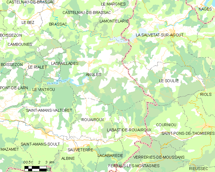 Map commune FR insee code 81014.png - Anglès